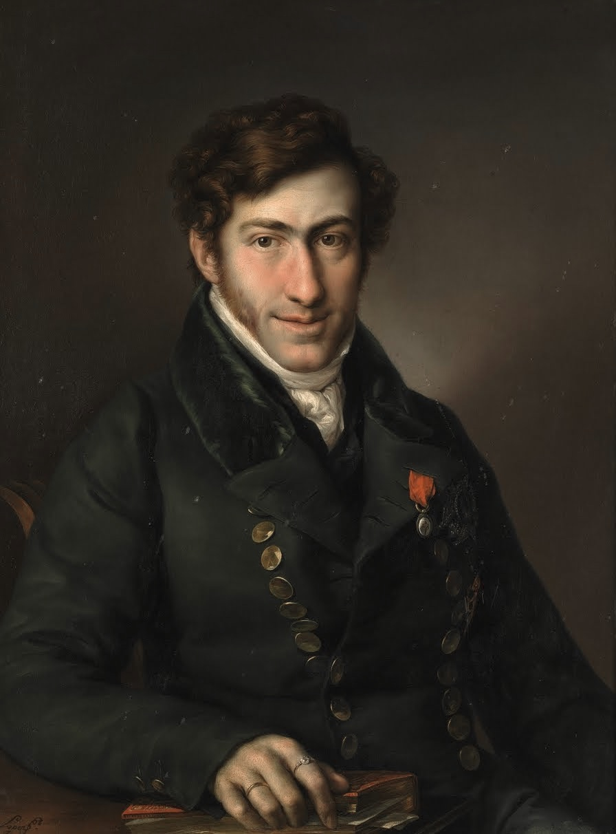 Francisco de Paula of Bourbon, infante of Spain (1794-1865) and son of the king Charles IV of Spain.